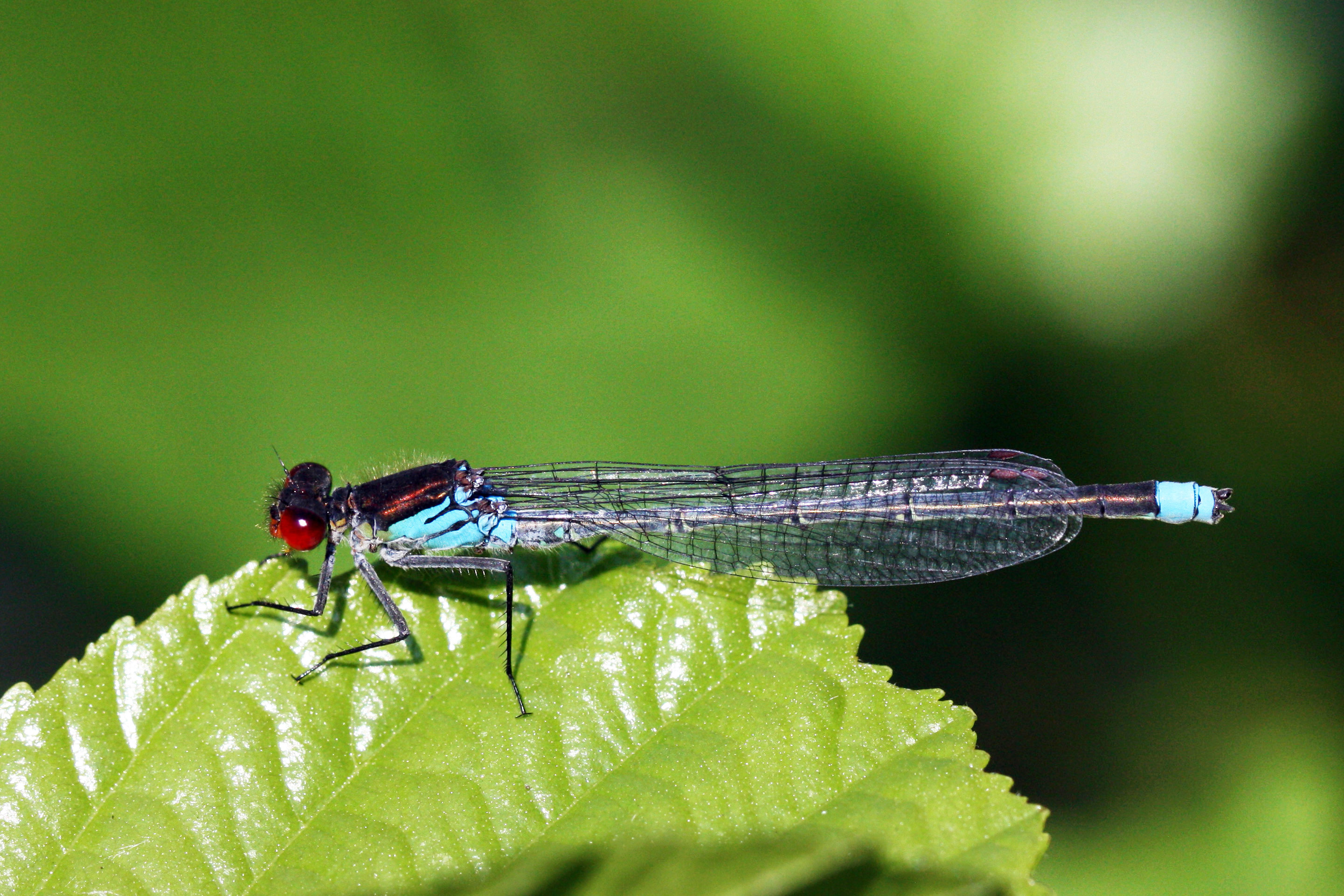 Red-eyed damselfly (Erythromma najas) male